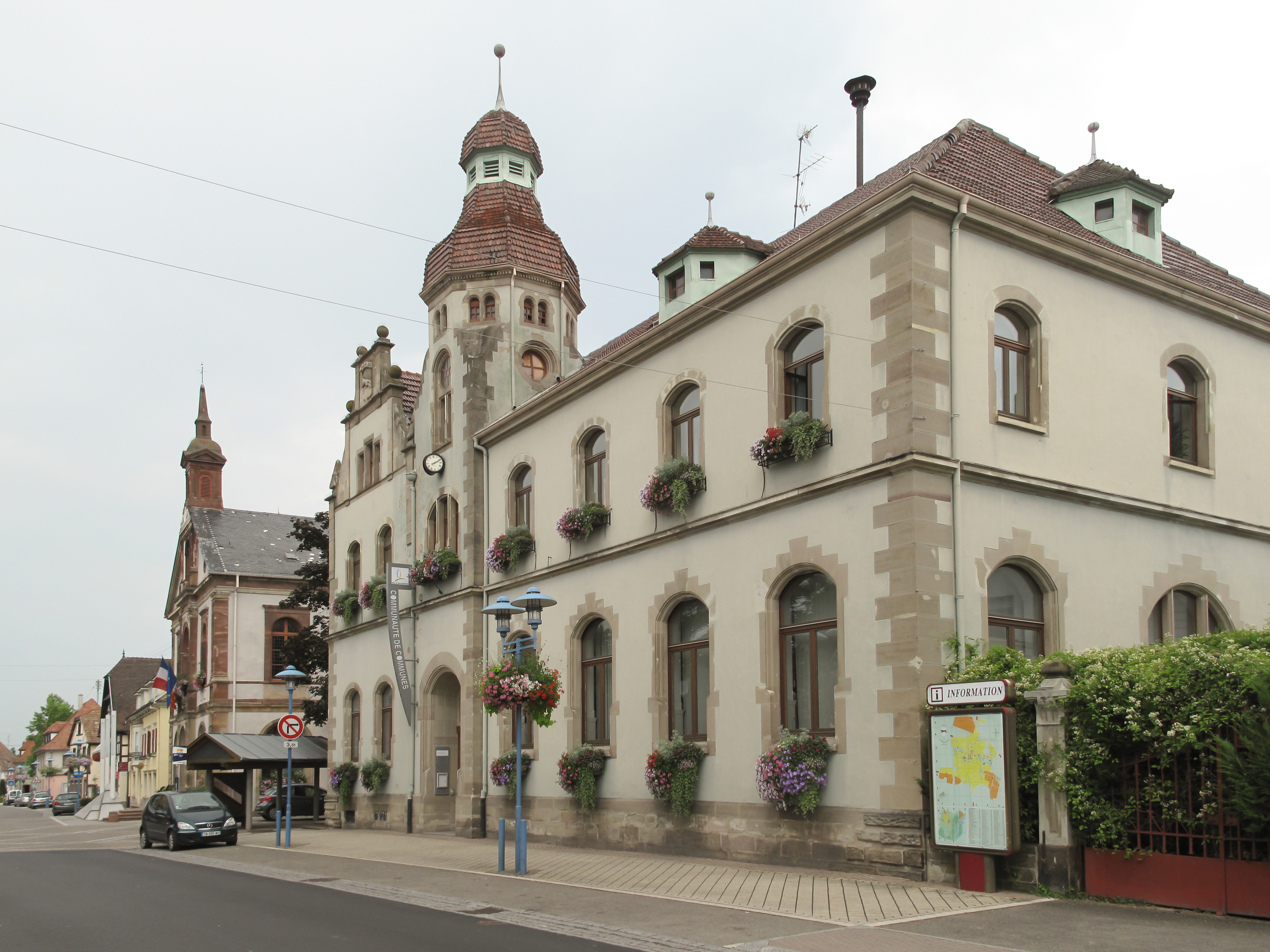 Marckolsheim, view to a street: Rue du Mal Foch near townhall